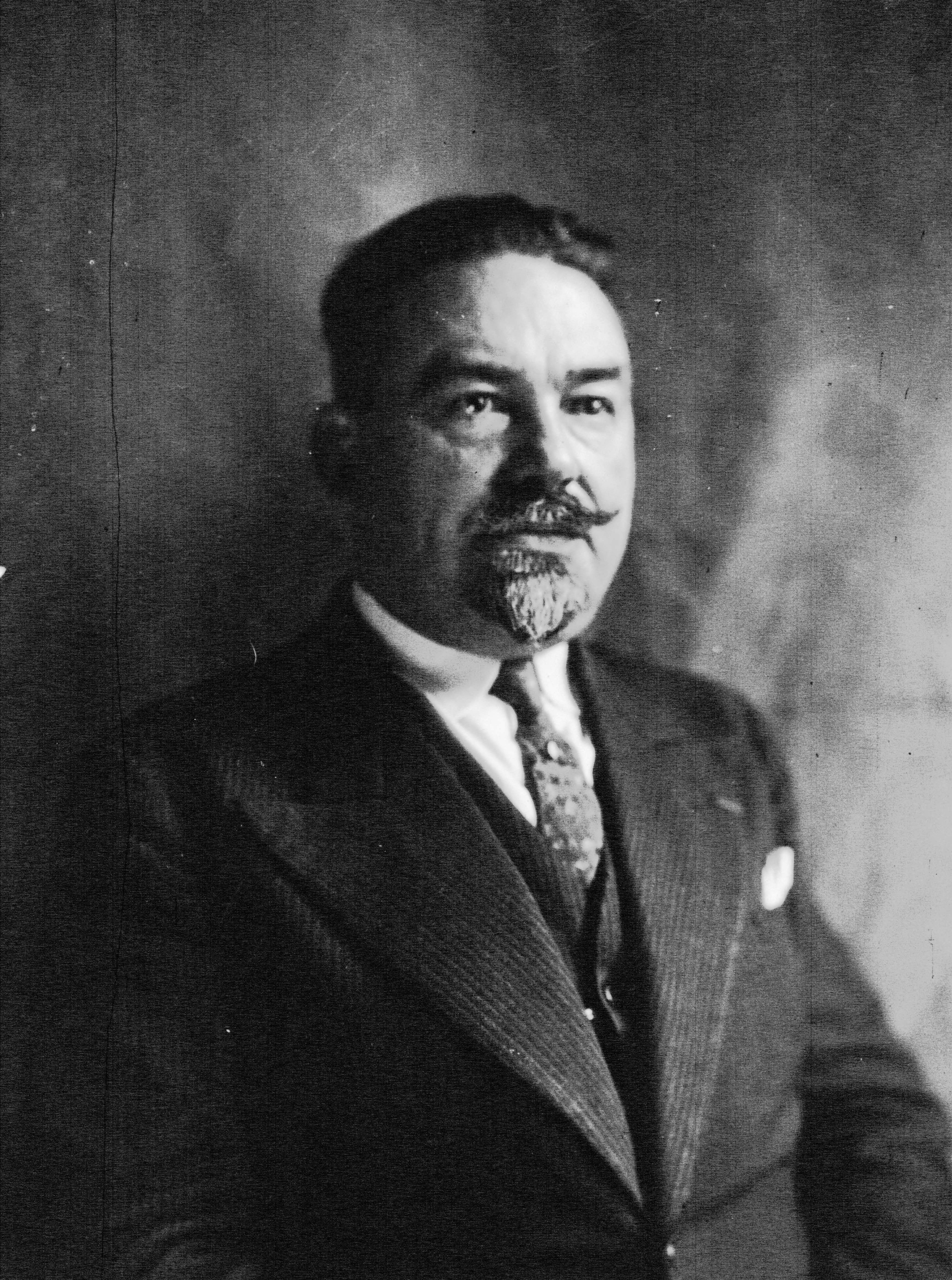 Portrait of the Occitan politician Lucian Saleta